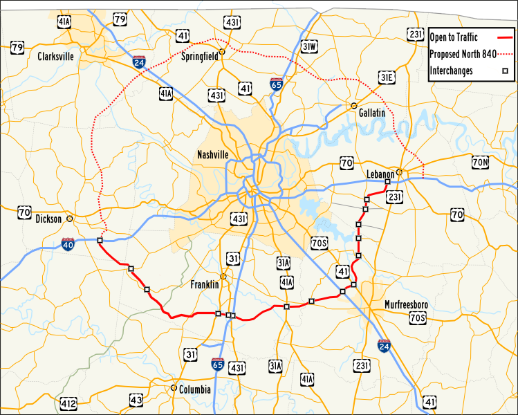 Map of Tennessee State Route 840